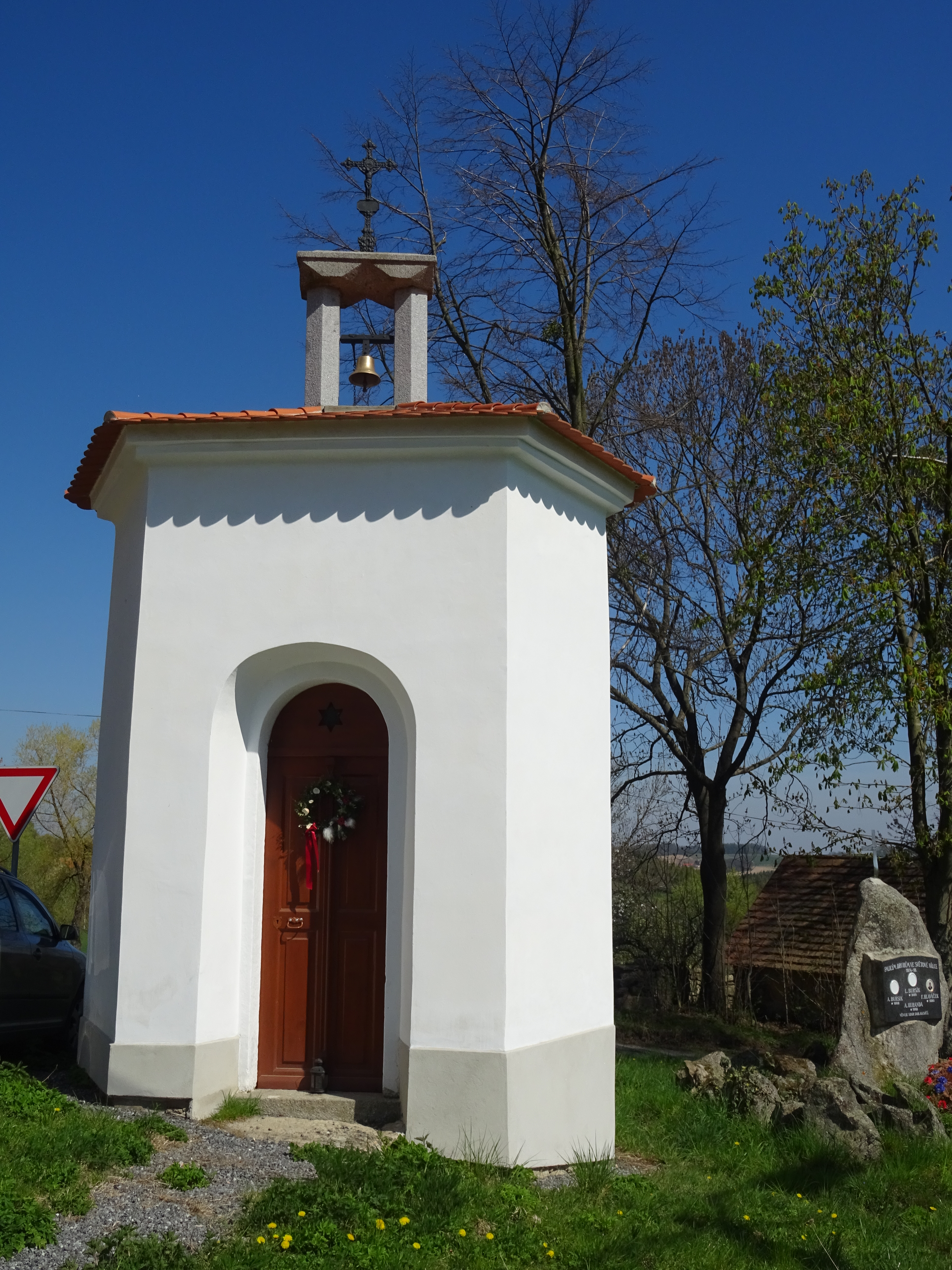 This photograph was created as a part of Wikiexpedition Mladá Vožice, a project supported by Wikimedia Foundation grant.